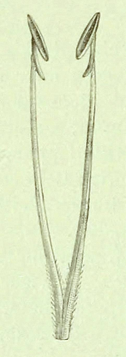 Hemiandra pungens - Estambres monotecas con el conectivo alargado terminado en un diminuto lóbulo glabro - en Adolf Engler & Karl Prantl, Die Natürlichen Pflanzenfamilien : nebst ihren , 1887, p. 220